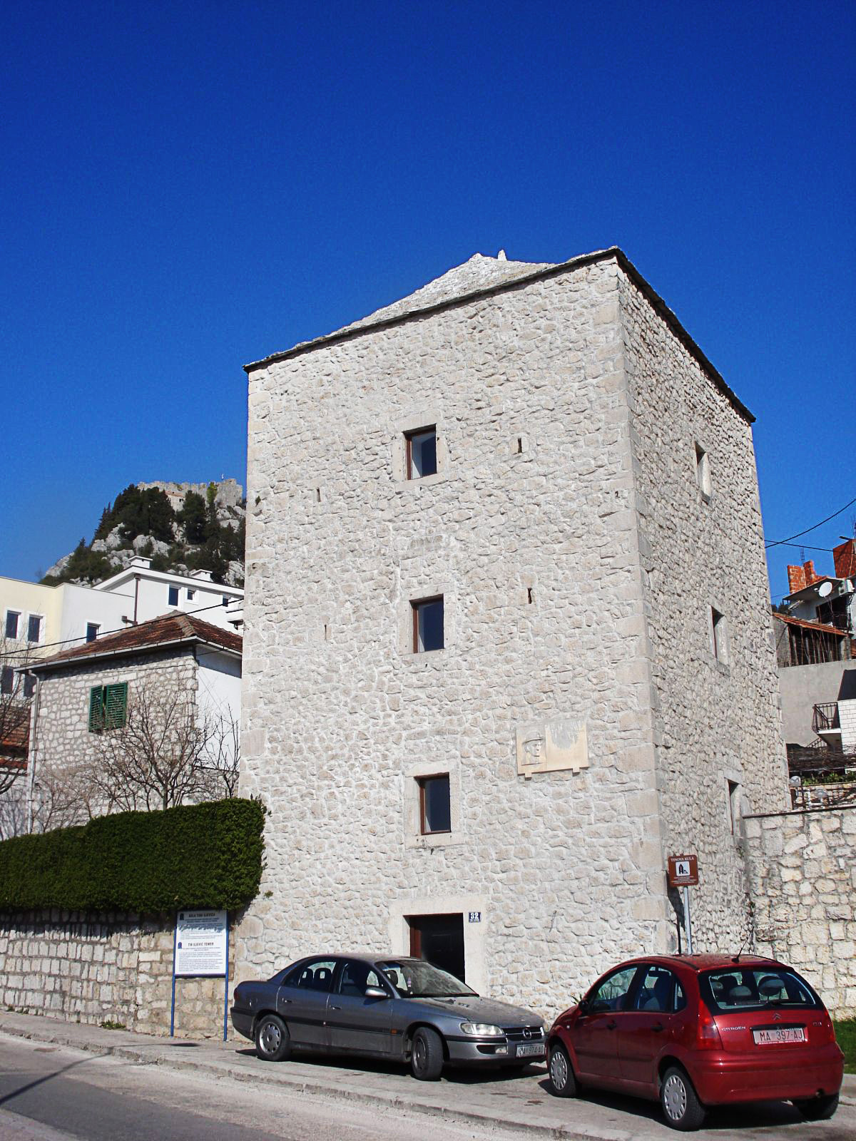 Vrgorac, Tin Ujević Tower.